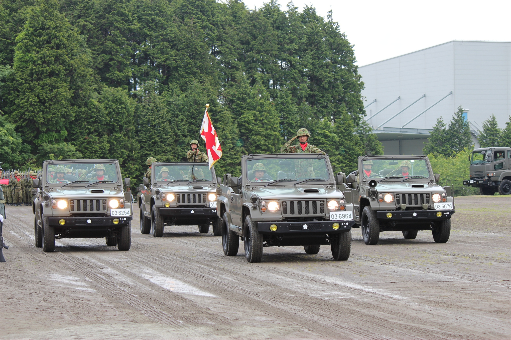 Title １／２ｔトラック 24.06.03 板妻・駐屯地祭 観閲行進_R.JPG Album 装備 １／２ｔトラック（駐屯地記念行事・第３４普通科連隊）